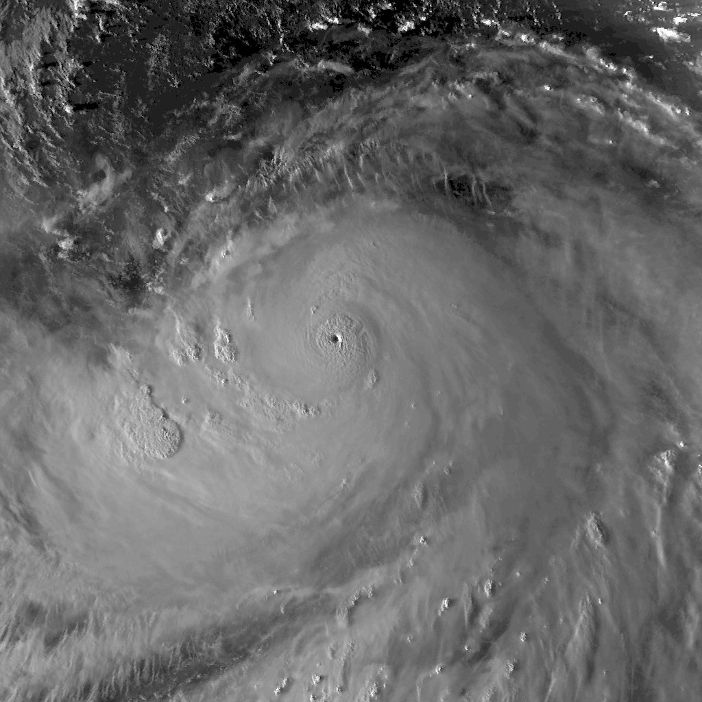 Typhoon Hagibis on October 7, 2019